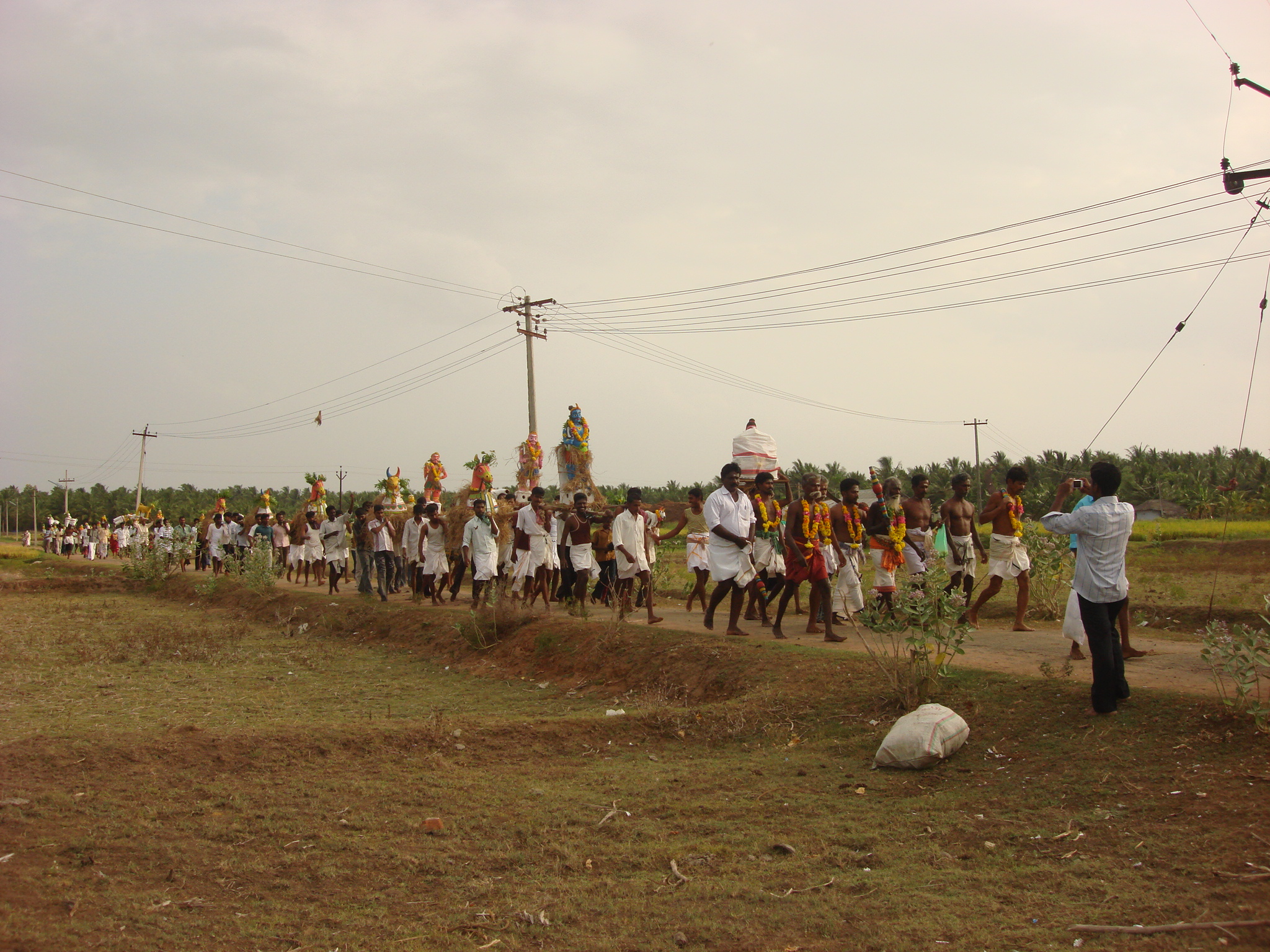 முடச்சிக்காடு அய்யனார் கோவில் திருவிழா முடச்சிக்காடு